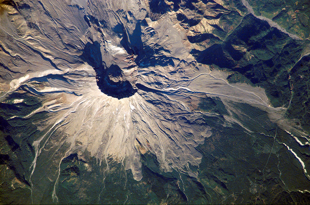 Mount St. Helens from the ISS in 2002.In 1980, Mount St. Helens erupted in Washington state, destroying over 270 square miles of forest in a few seconds, and sending a billowing cloud of ash and smoke 80,000 feet into the atmosphere. The devastating effects of the eruption are clearly visible in this 2002 photo from the International Space Station.